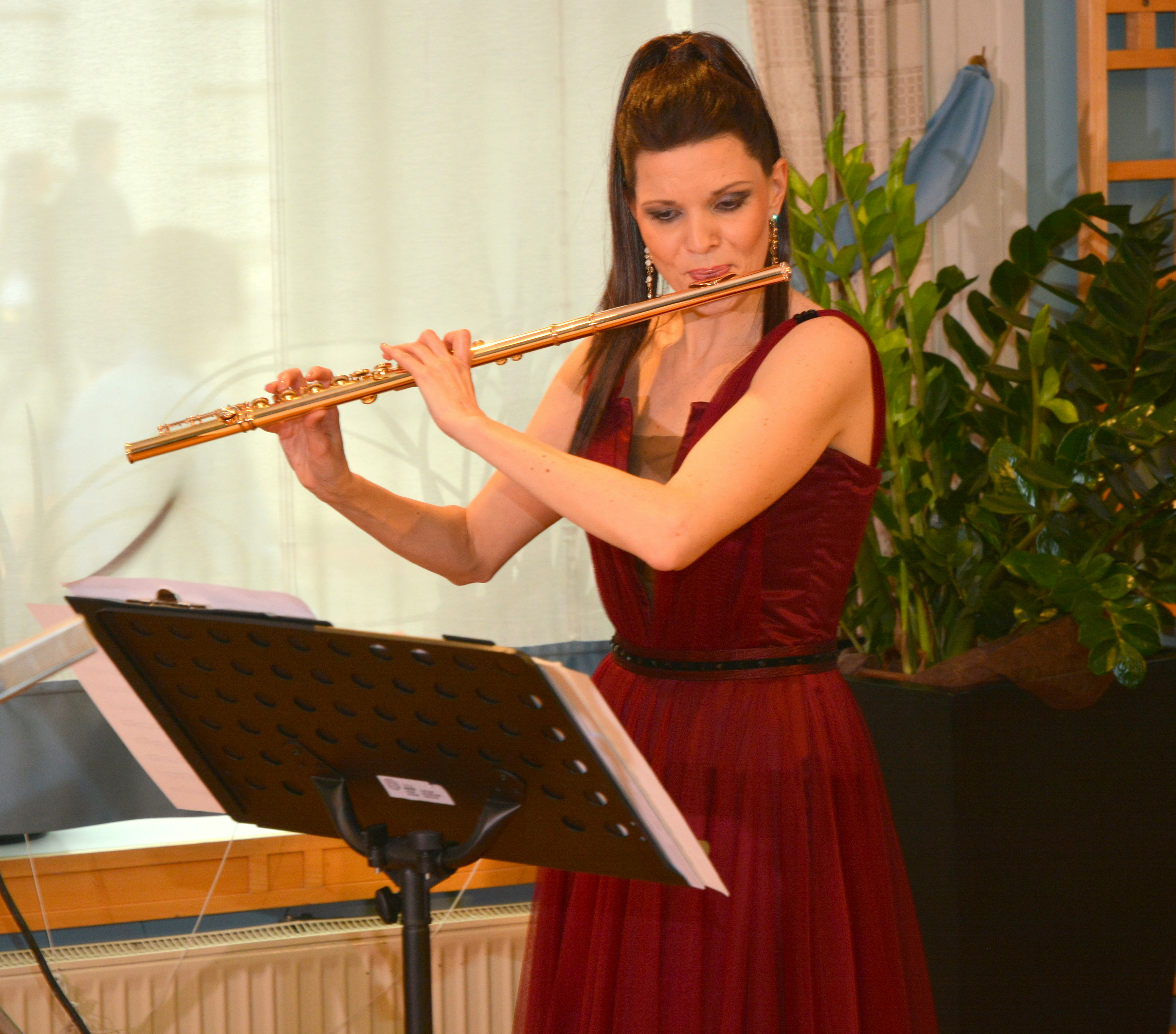 Anja Burnik - flutist, Slovenia.